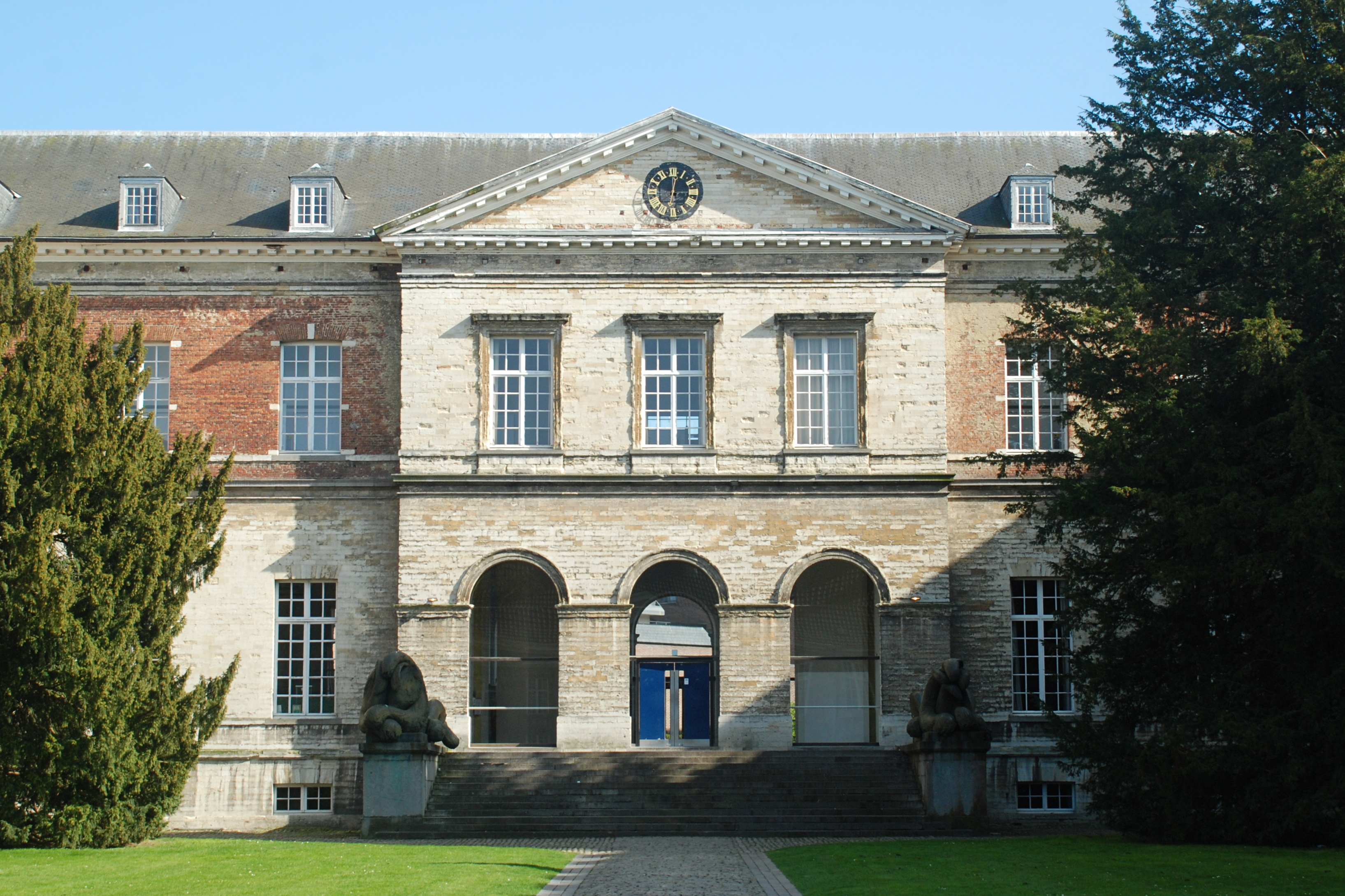 Belgium - Leuven - Pope Adrian VI college